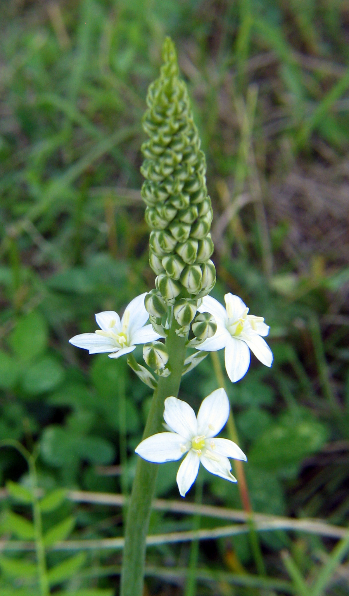 Ornithogalum pyramidale